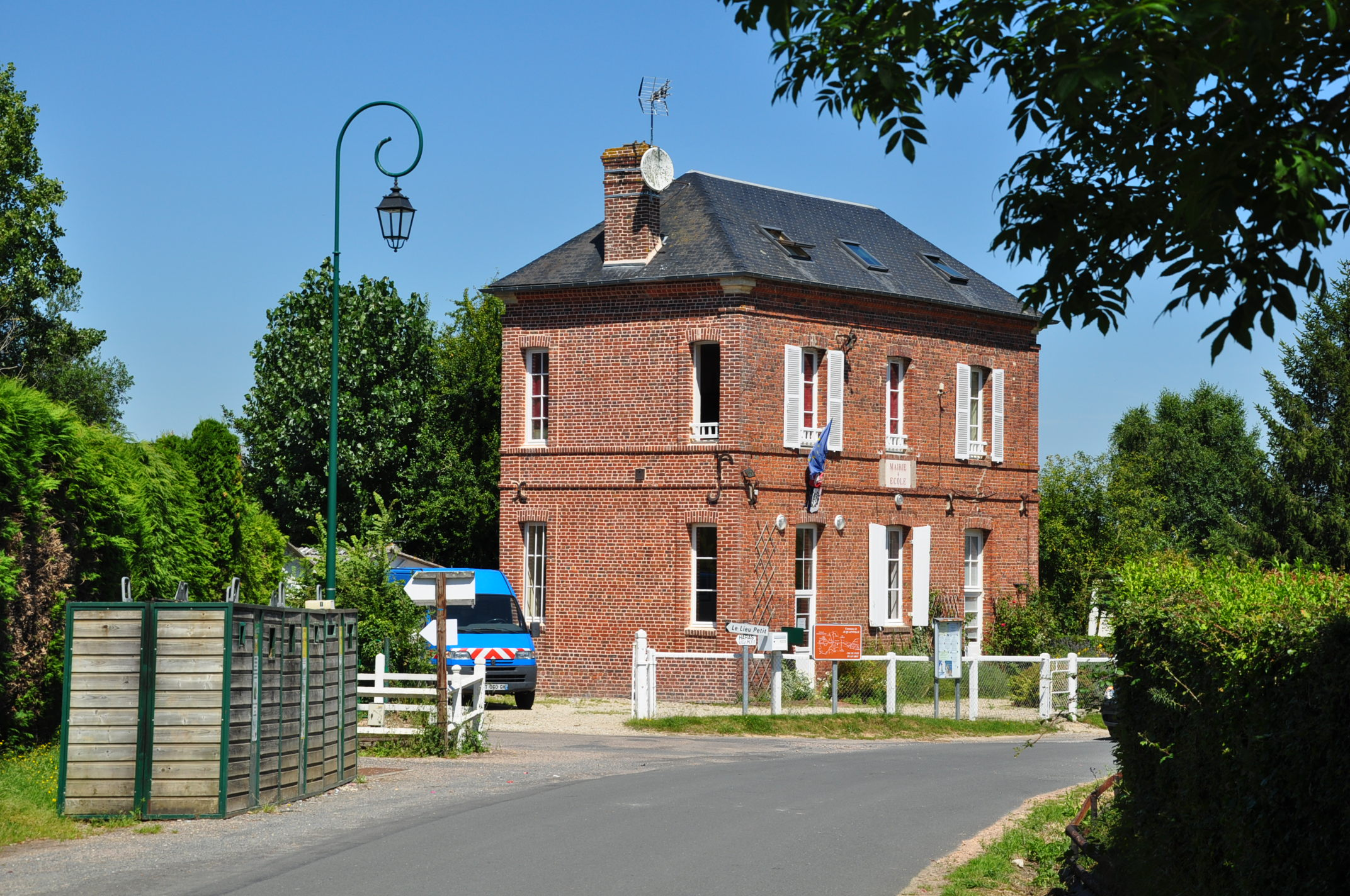 The town hall of Auquainville (Calvados department, Lower Normandy, France). The village school was also in this building; the teacher lived upstairs.